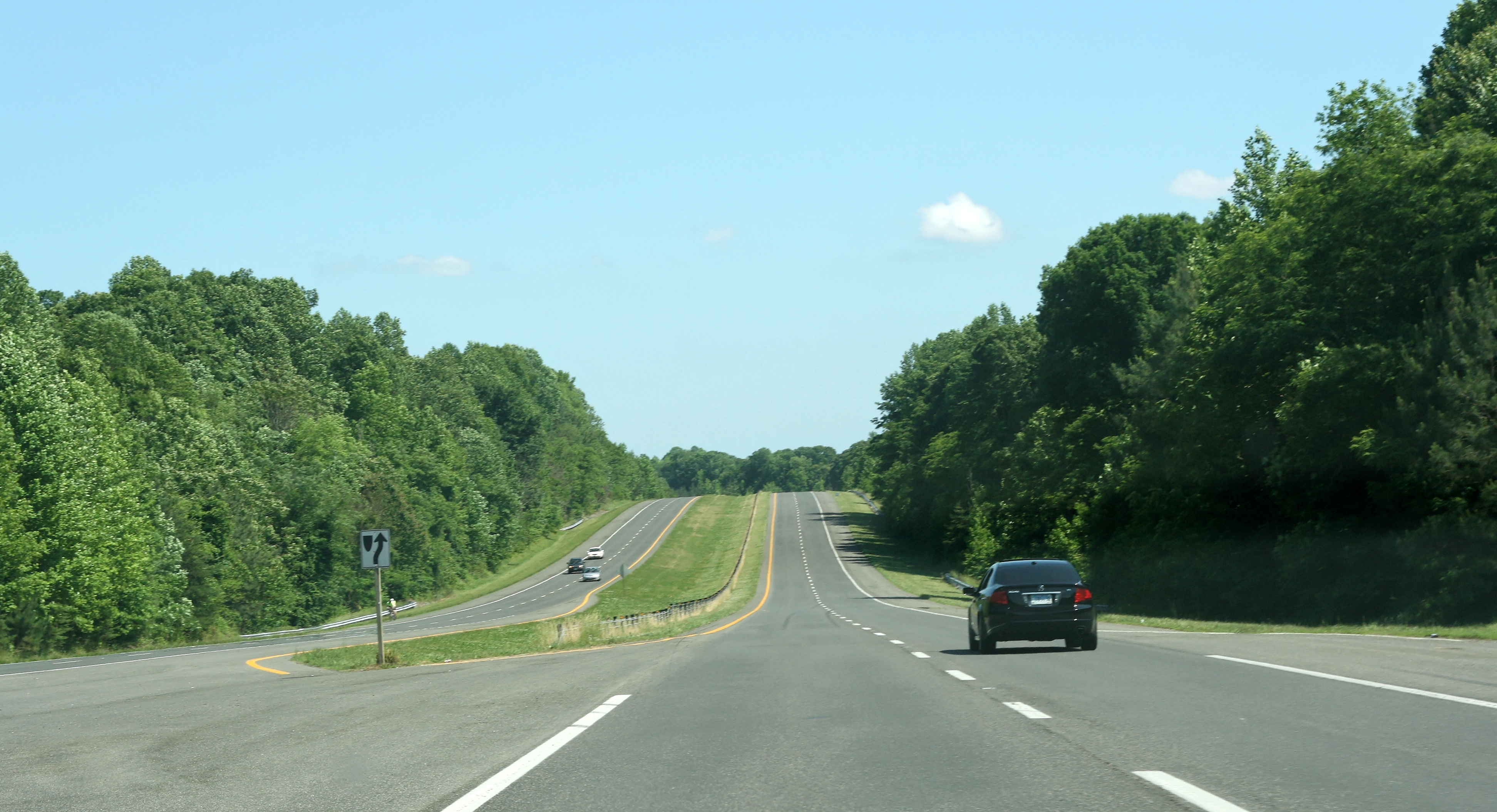 Shot of Maryland State Route 2/4, heading southbound in Calvert County in Southern Maryland.